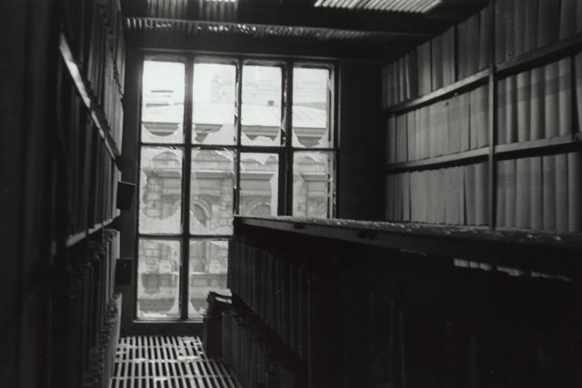 Air raid damage at the National Archives of Finland during the Continuation War